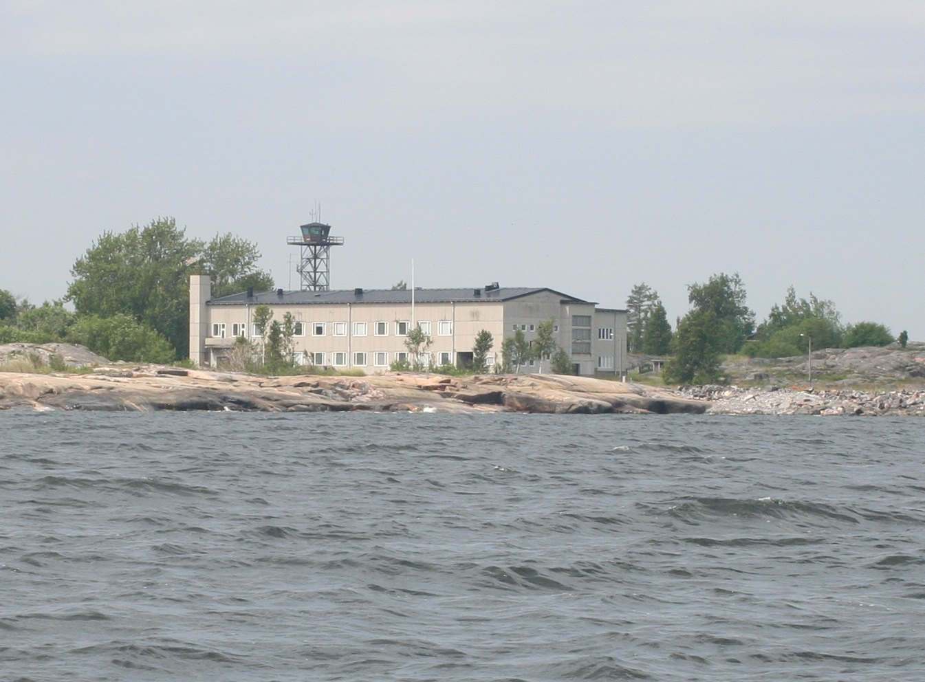 Buildings on Mäkiluoto island, Kirkkonummi, Finland.